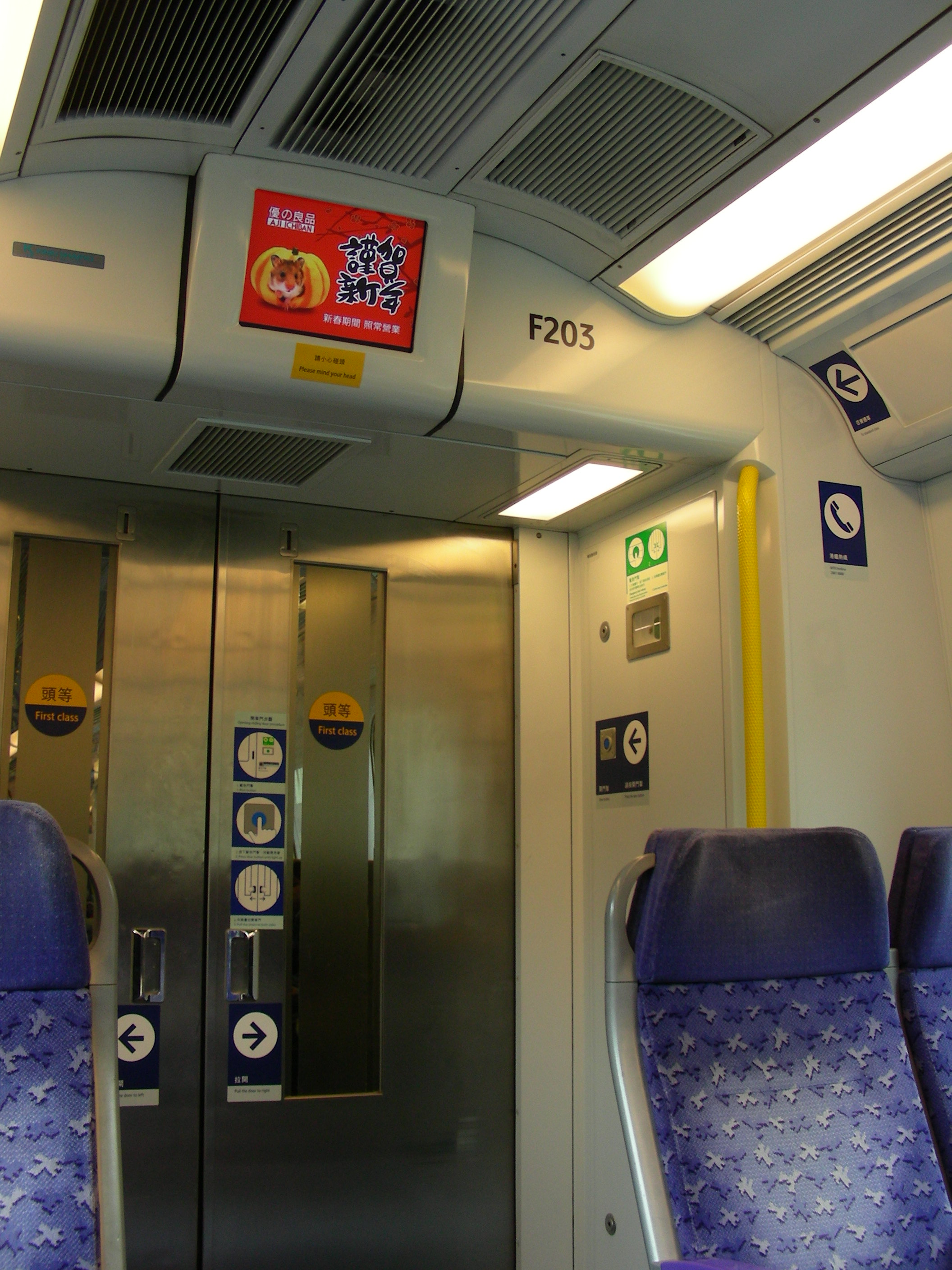 KCR SP1900 through door,the first class side